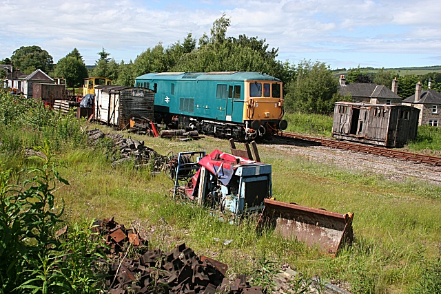 Dufftown Station A remarkably untidy scene at Dufftown Station.